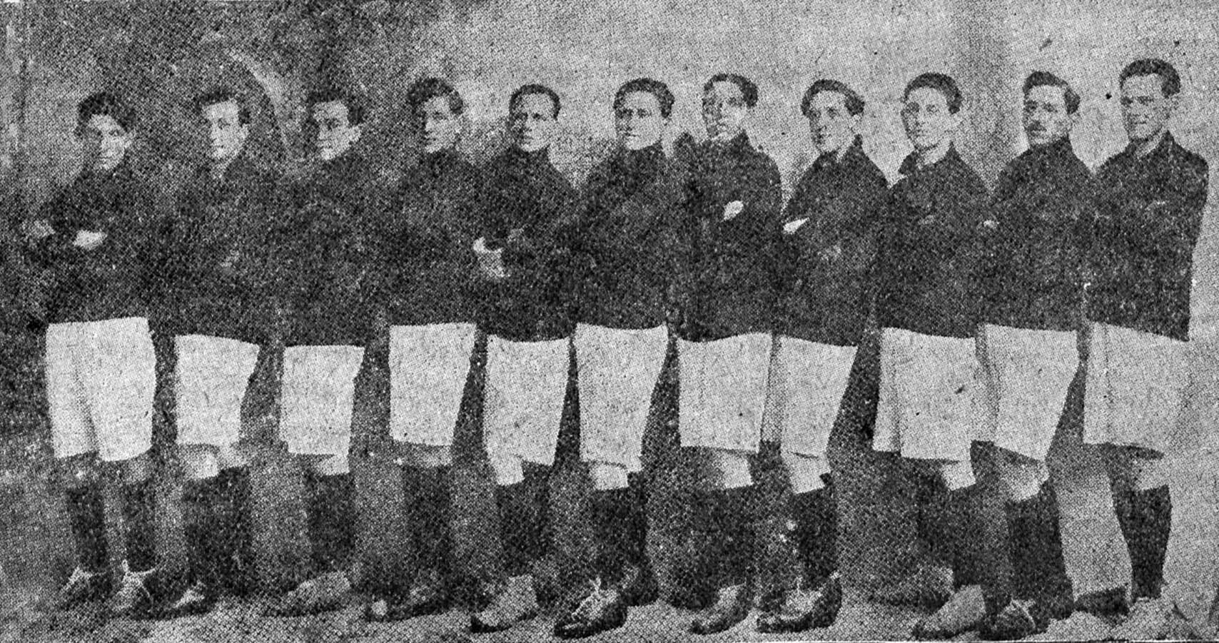 Team of Gremio Sportivo Brazil, tri-champion of Pelotas, Rio Grande do Sul.